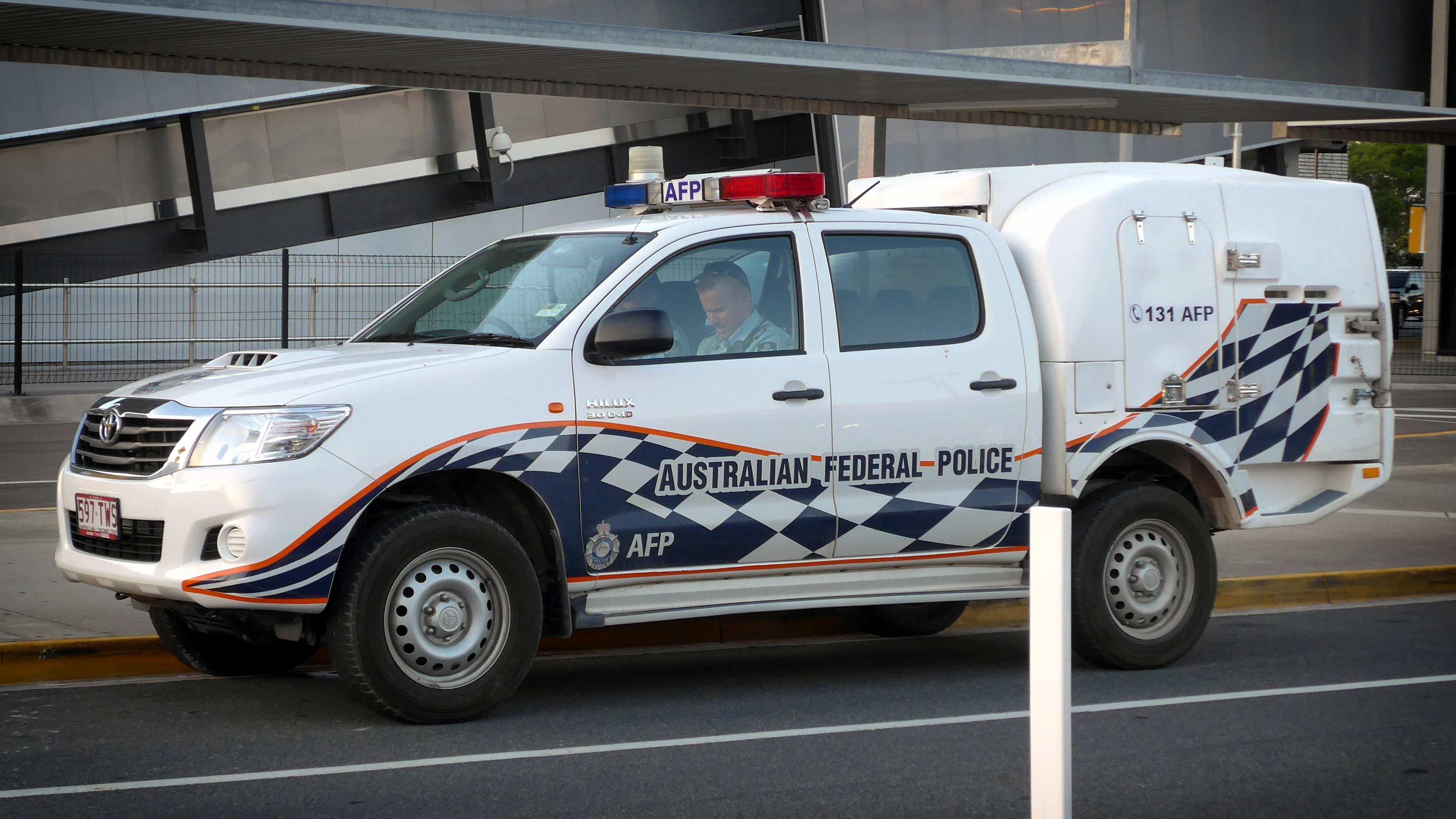 A Toyota Pickup of AFP